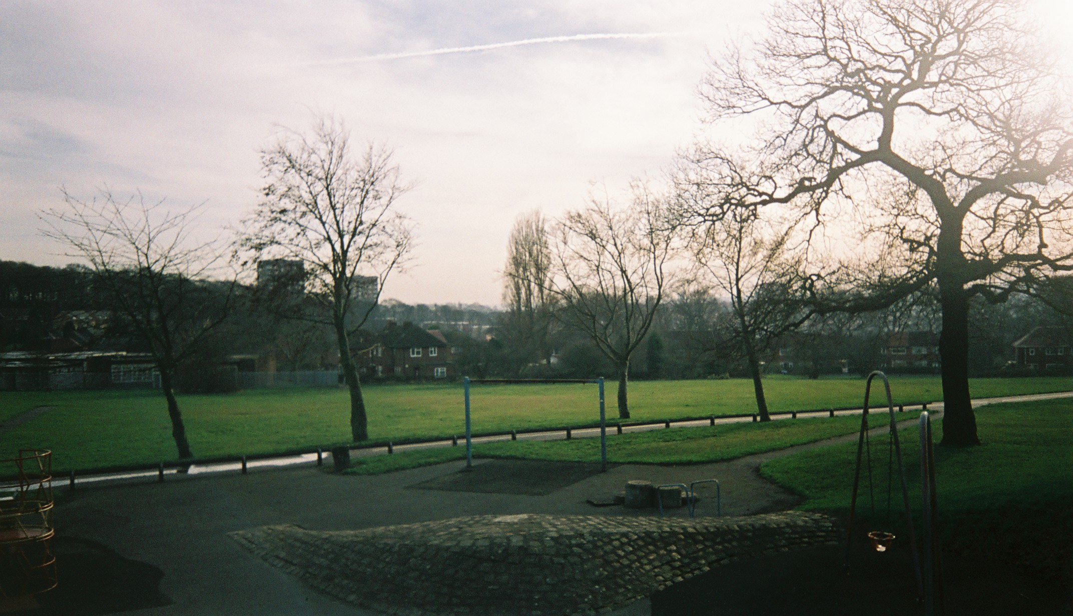 Becketts Park, Leeds